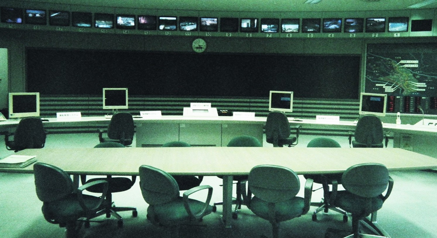 Central control room of the Metropolitan Area Outer Underground Discharge Channel (首都圏外郭放水路) otherwise known as "G-Cans project". Pictures inside the actual Discharge Channel glitched, but this one survived. Enjoy.